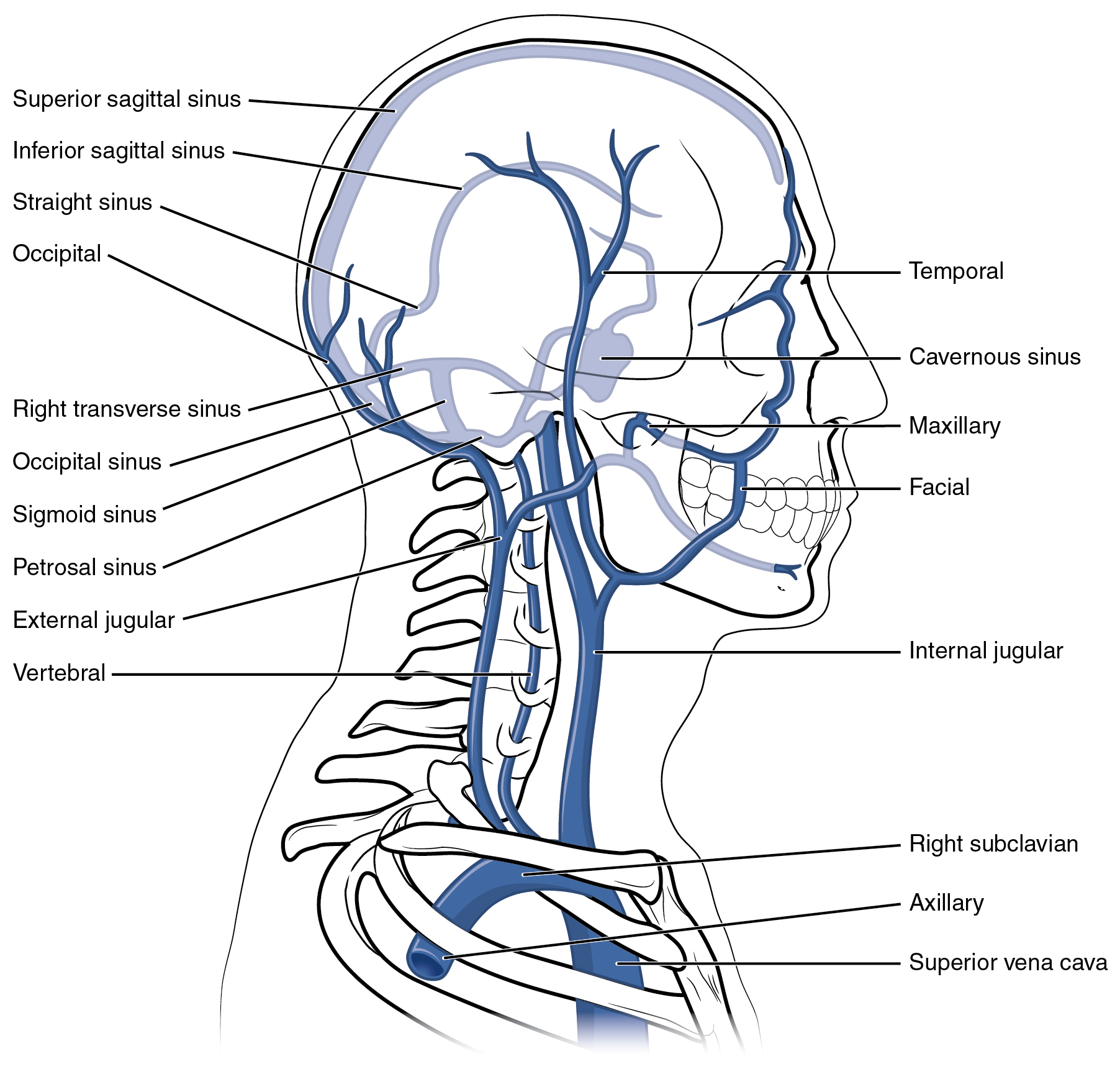 Illustration from Anatomy & Physiology, Connexions Web site. Jun 19, 2013.